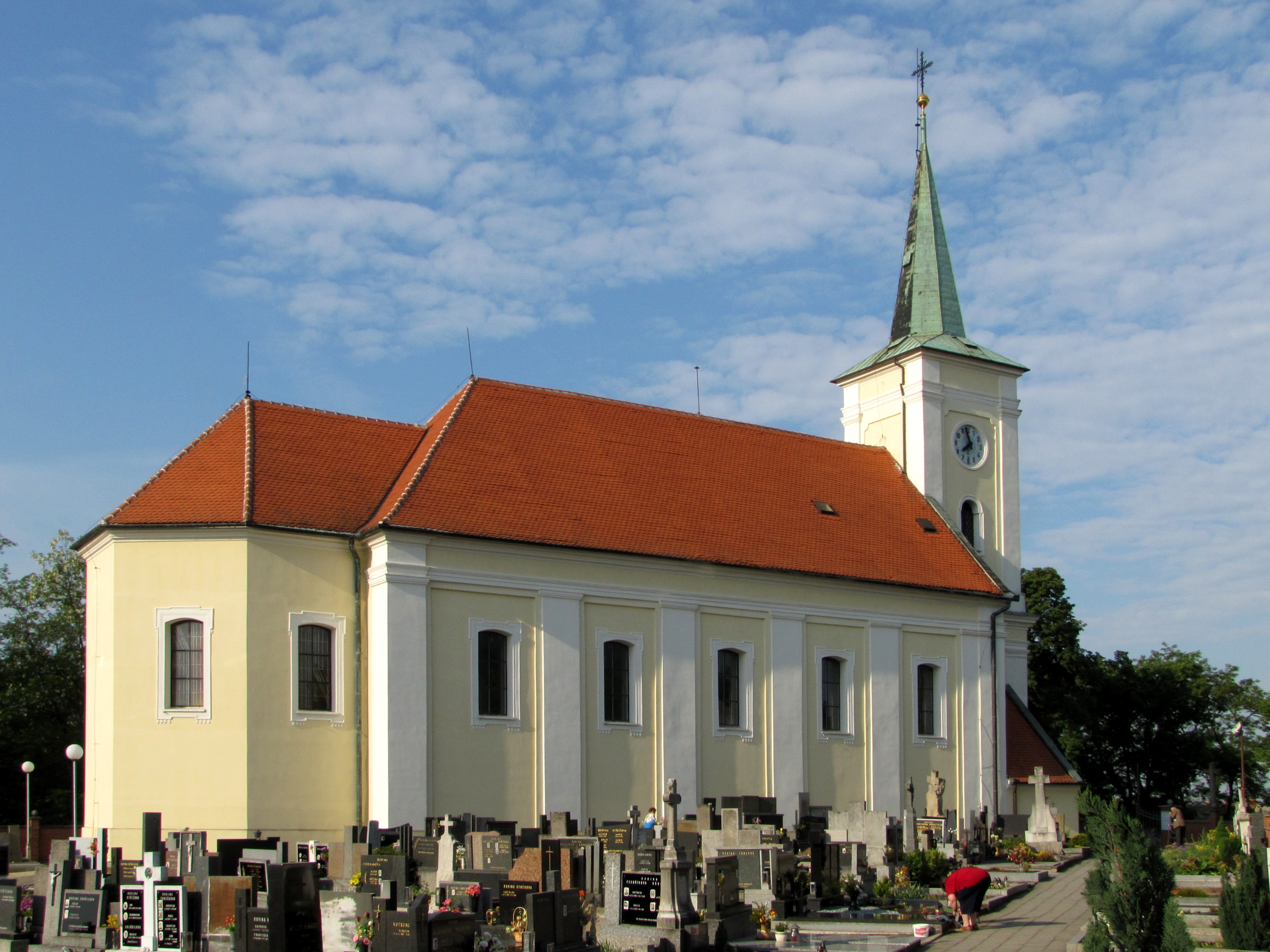 Late Baroque church of the Visitation of Virgin Mary in Svatobořice-Mistřín, Hodonín District, CZ